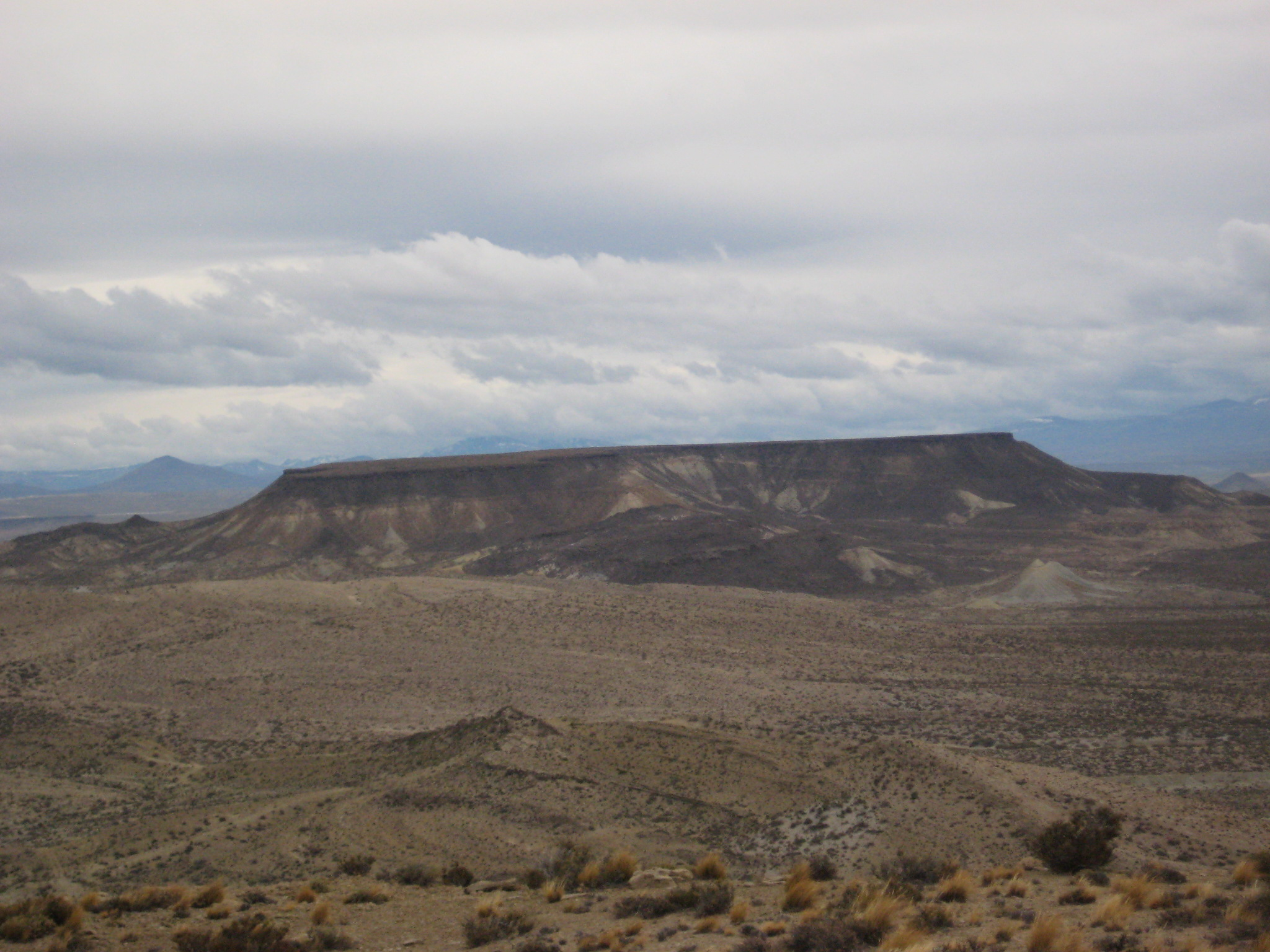 Cerro Negro, Neuquén, Argentina